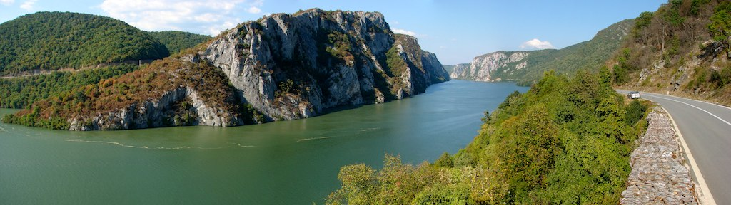 Đerdap National park, view